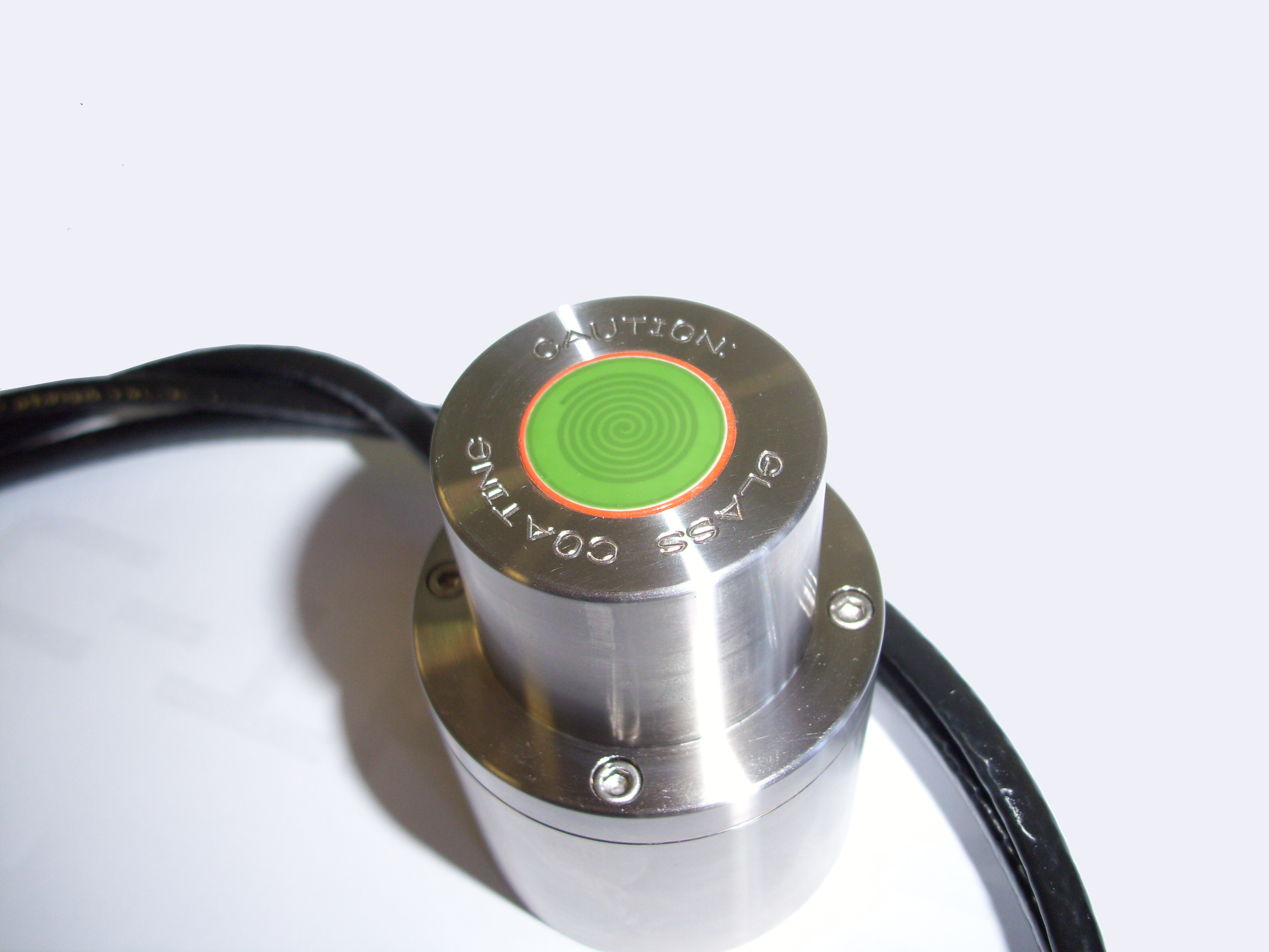 Thermal conductivity measurement instrument employing the modified transient plane source technique.